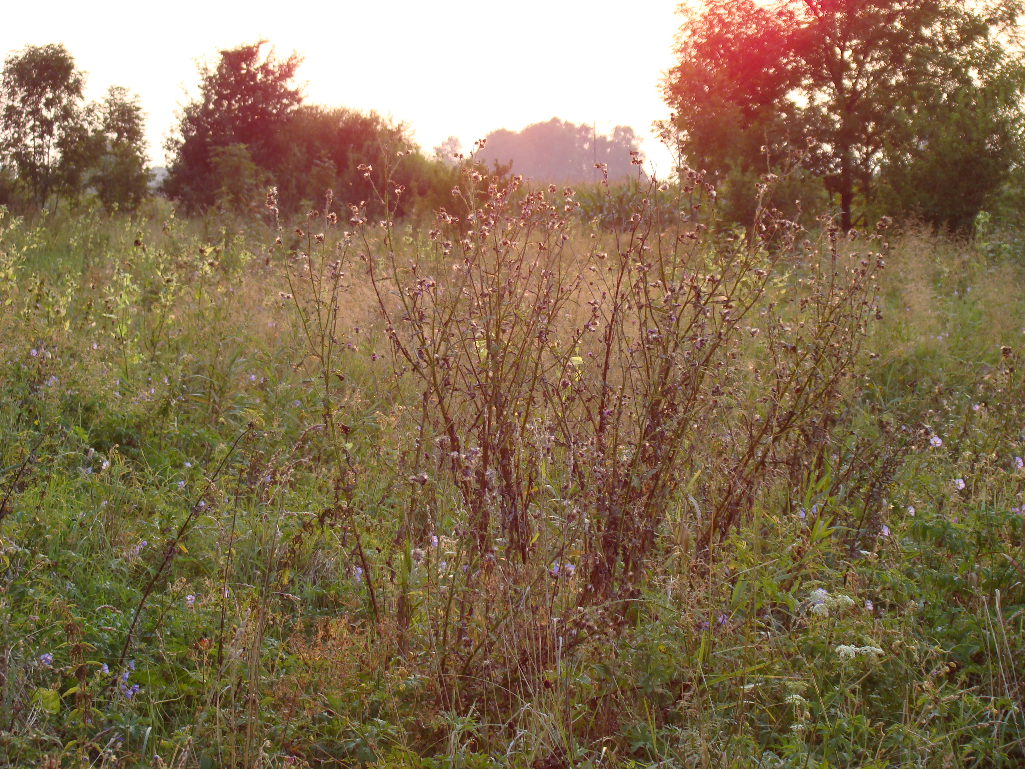 Habitat of Phengaris (Maculinea) nausithous in Lower Silesia, Poland